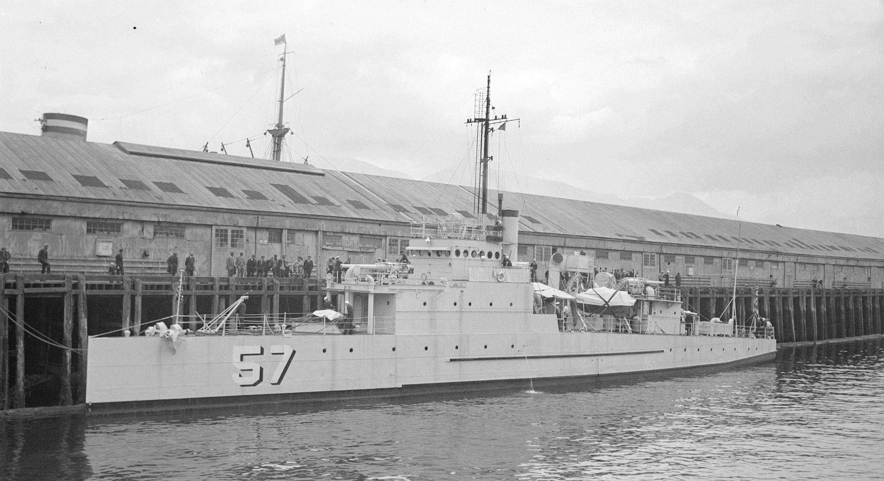 U.S.S. Eagle 57 at dock in Vancouver.